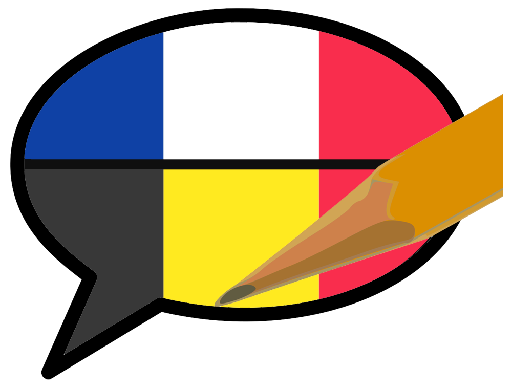 From and (derivative work)